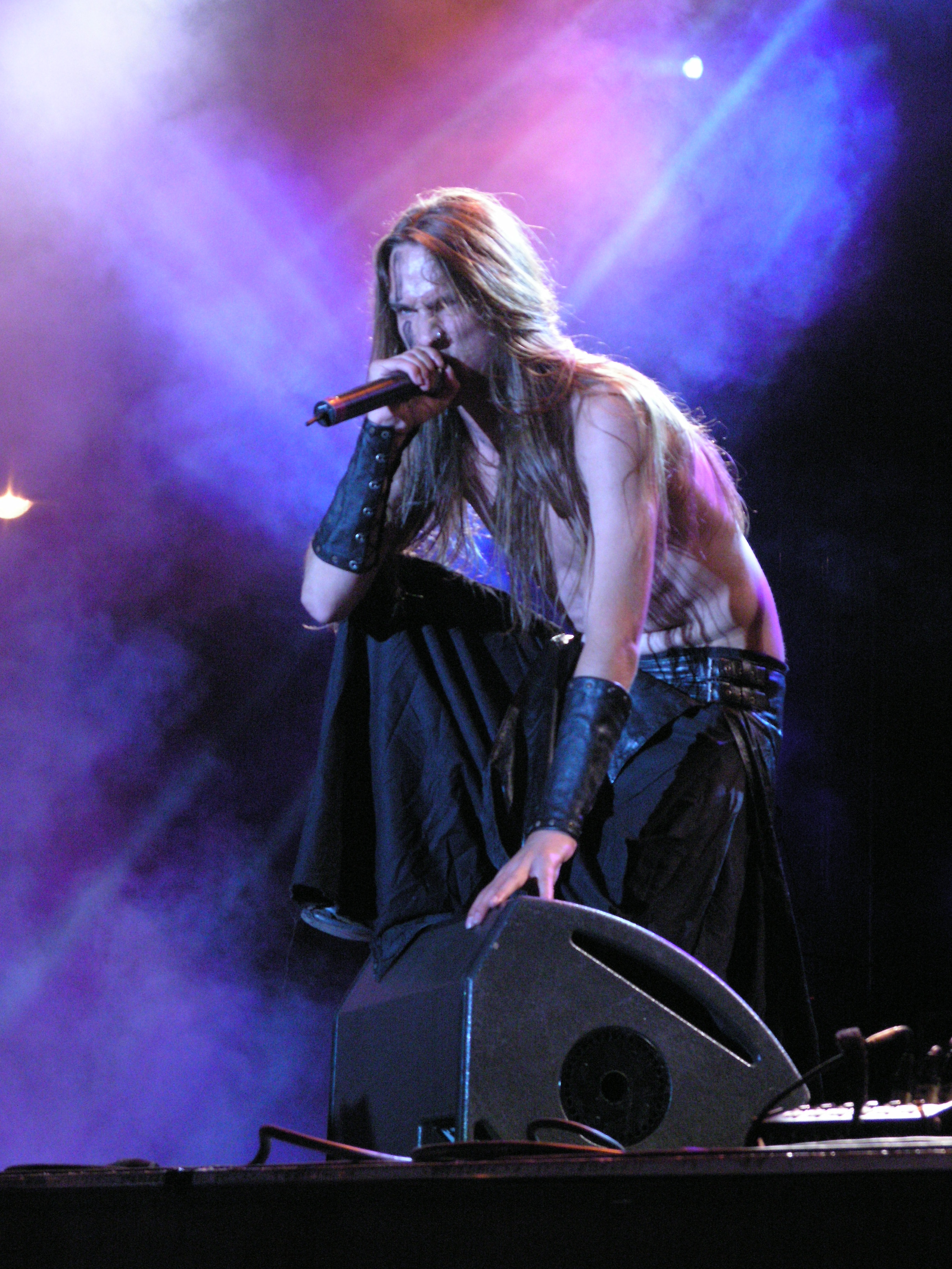 Mathias Lillmåns from Finntroll during Masters of Rock 2007 festival